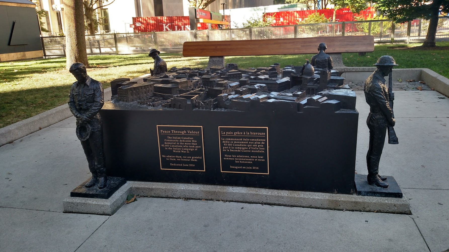 Inaugurated in mid 2016, a sculpture commemorating more than 93,000 Canadians who fought in the Italian Campaign of World War II—an often overlooked but vital part of Europe’s fight for liberation from Nazi Germany—was unveiled beside Toronto City Hall. The battle referenced in the artwork occurred at Christmastime in 1943, when the Canadian Forces in the Italian Campaign of World War II fought a fierce battle to liberate Ortona, Italy from Nazi Germany.